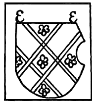 Coat of Arms of Erhard Etzlaub, which he used many times as his signature from 1517 until his death, however not in all of his work. This version is later than 1517.